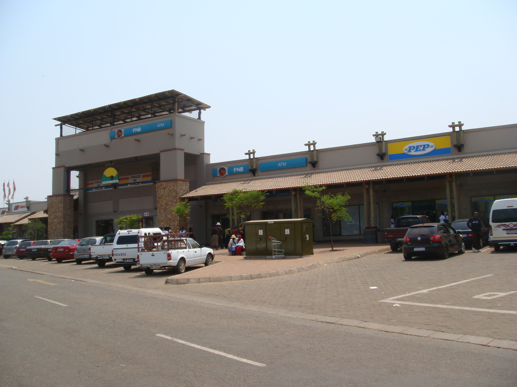 For all your shopping experience.